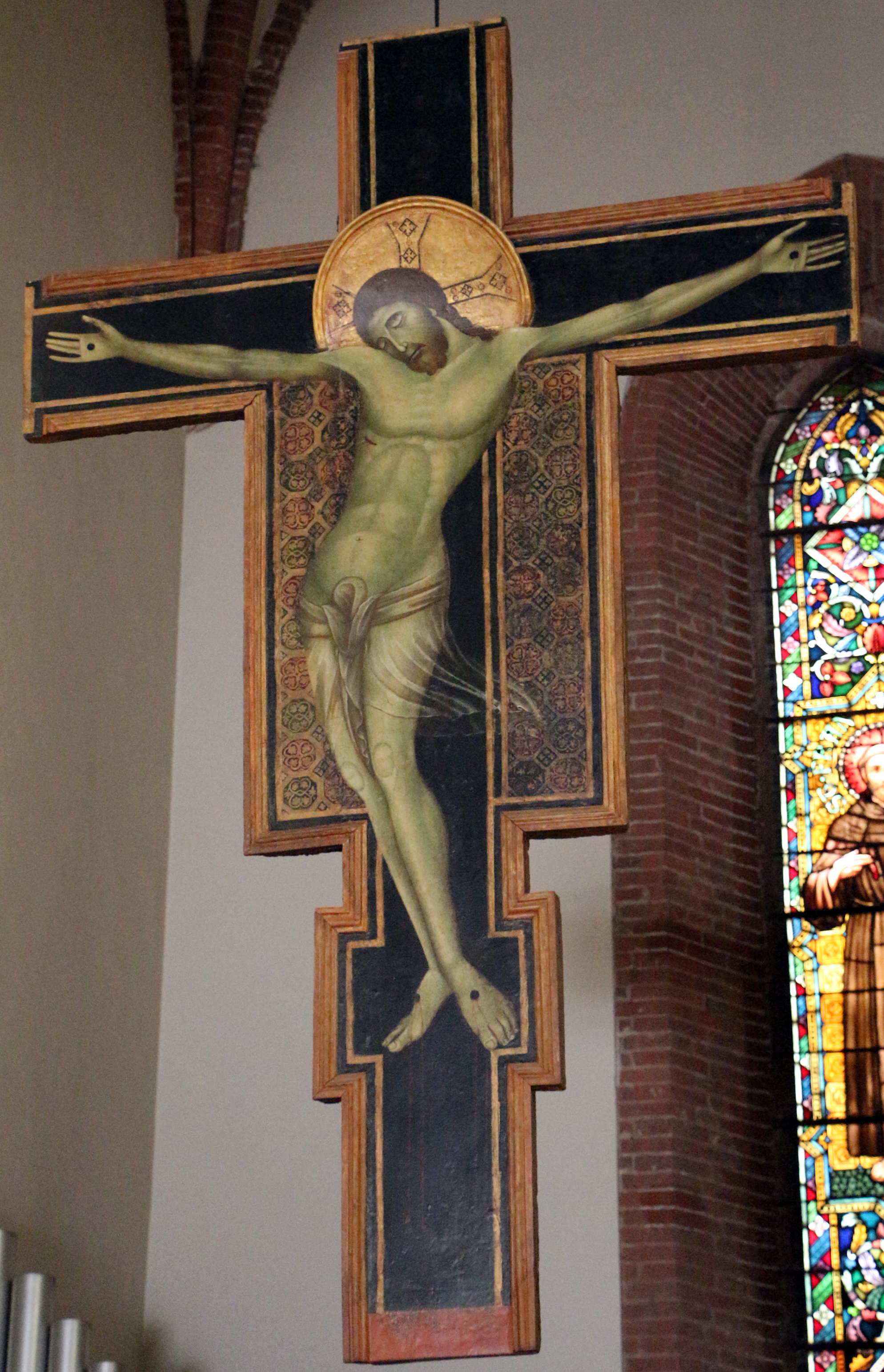 San Francesco (Grosseto)